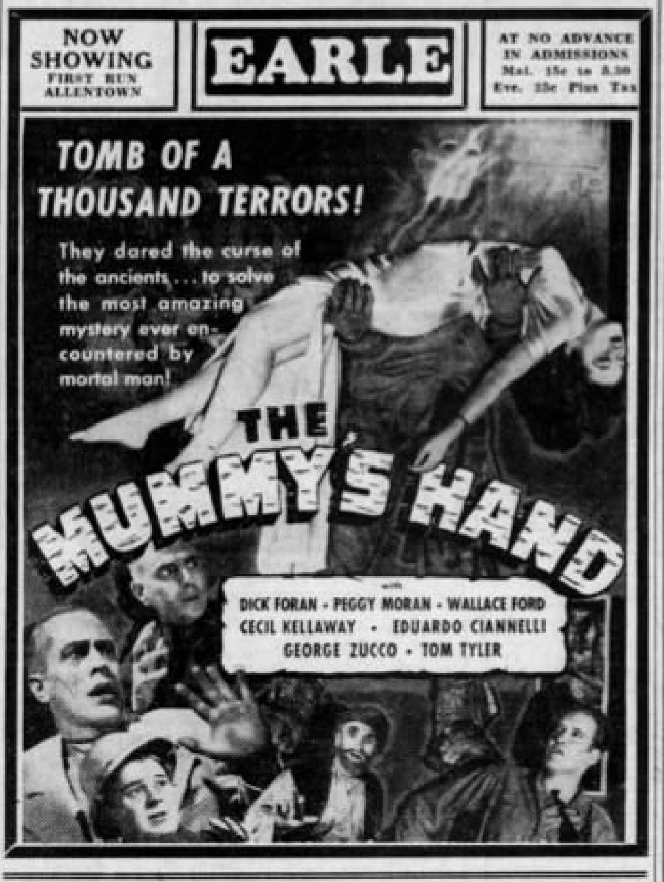 Earle Theater advertisement for the American horror film The Mummy's Hand (1940) - 3 Oct. 1940 Morning Call, Allentown PA